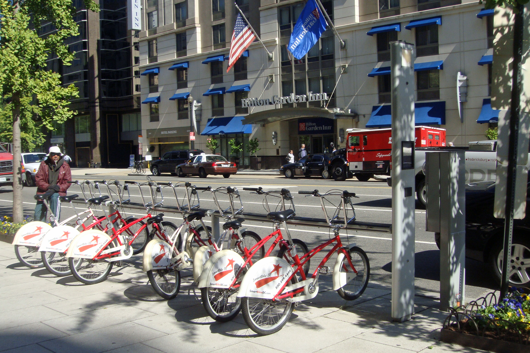 SmartBike DC rental station near McPherson Square Metro station, 14th Street NW, Washington, D.C.